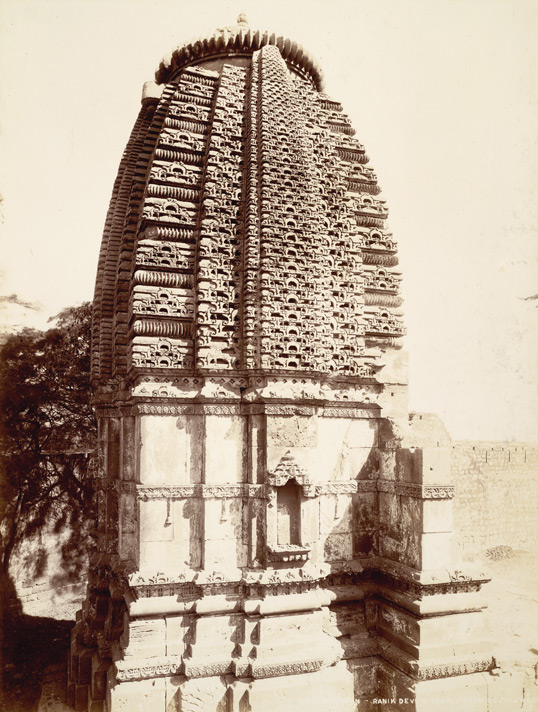 From source, Photograph of the Ranik Devi's Temple in Wadhwan, Kathiawar, Gujarat, taken by Henry Cousens for the Archaeological Survey of India Collections: Western India 1898-99. Ranik Devi is a small temple that stands just inside the walls of the town on the north side towards the eastern end. This photograph is taken from the south-west and shows the shikara, or tower; the porch or mandapa are no longer extant.